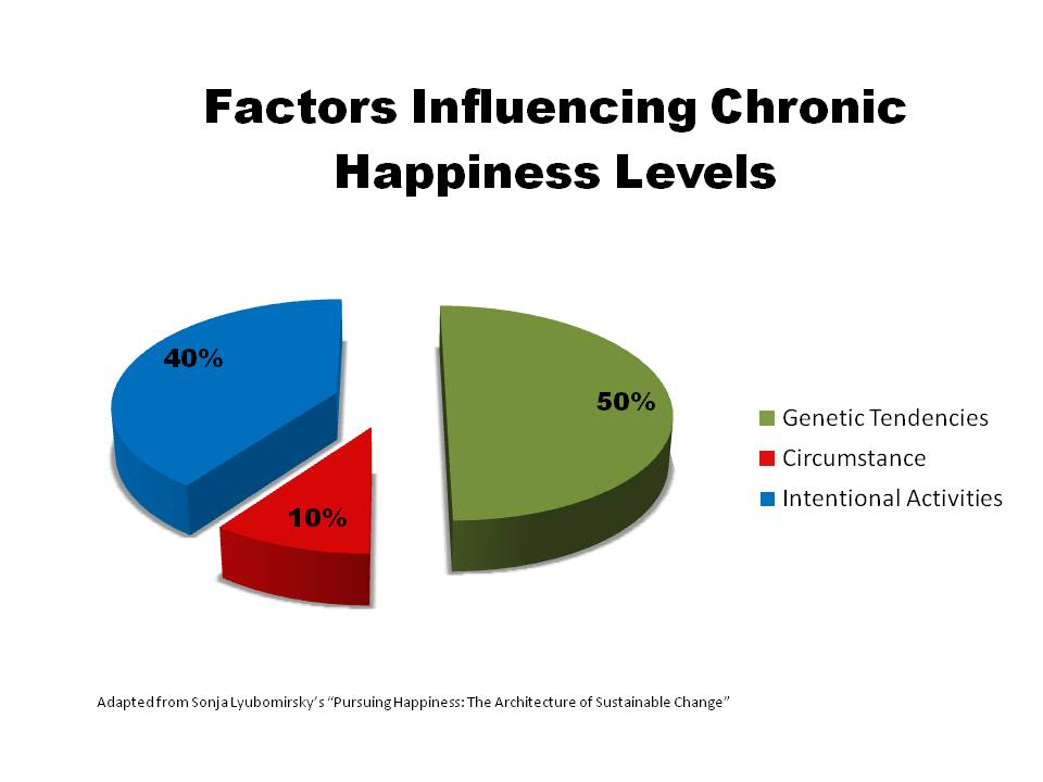 A table illustrating statistics mentioned in the source's journal article. The graph attempts to account for, not the role of genetics and environment and behaviour in the happiness of one person, but the role for those ingredients in explaining why one person may be happier than another.